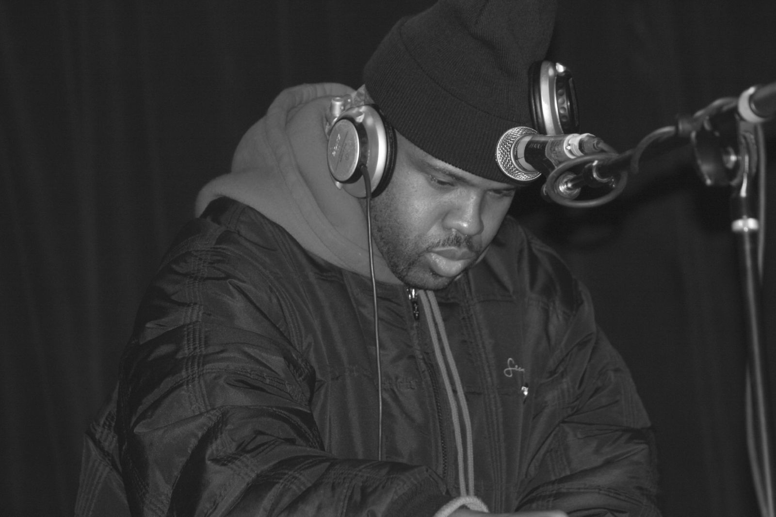 Wu-Tang Clan's DJ, Allah Mathematics during a show at Ogden Theatre on December 20, 2017